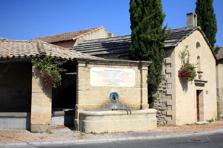 the village of Courthézon, Vaucluse, France